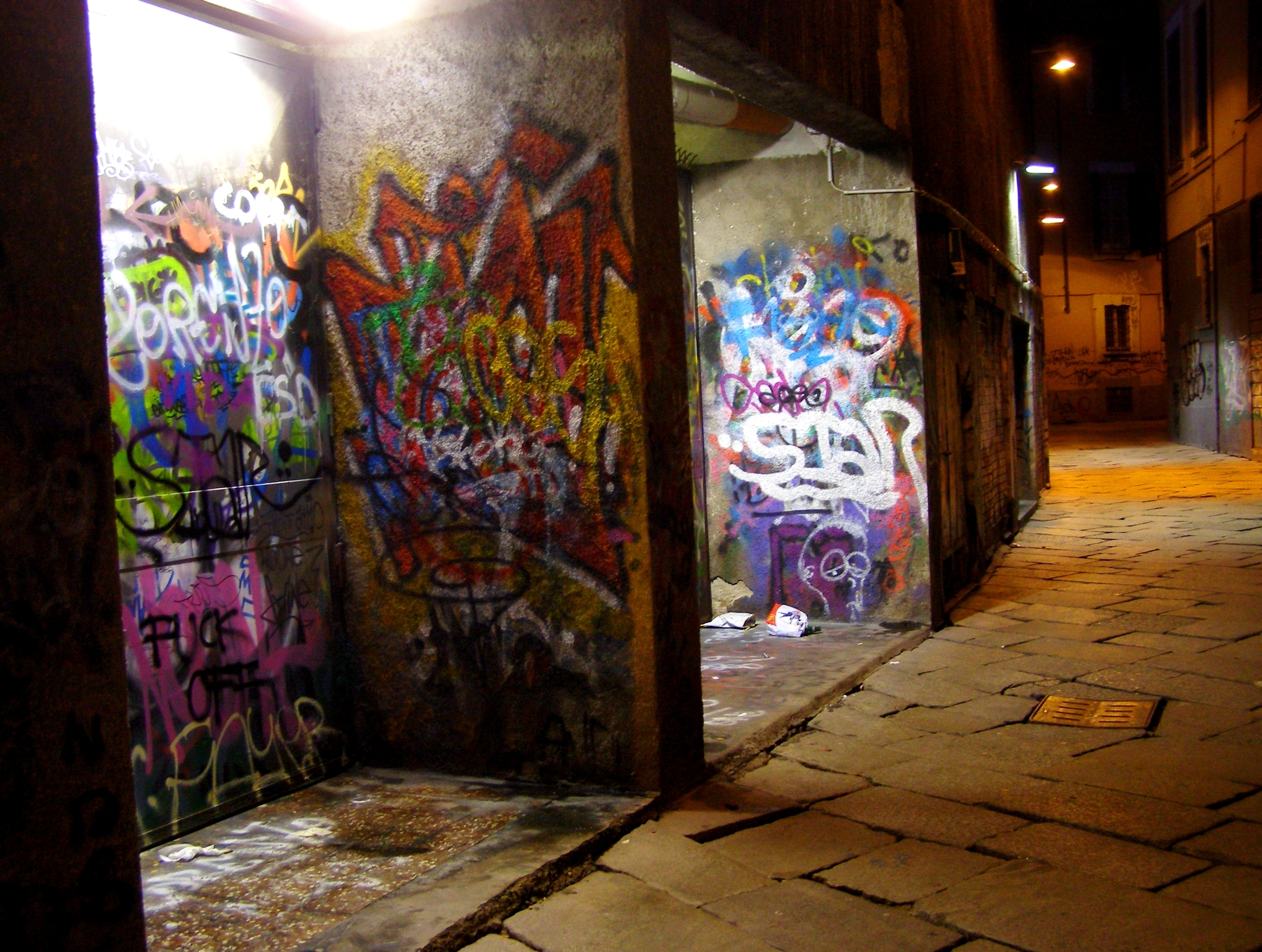 A photo taken in Via Bagnera, Milano, Italy, a dark and deserted alley in the center of the city.